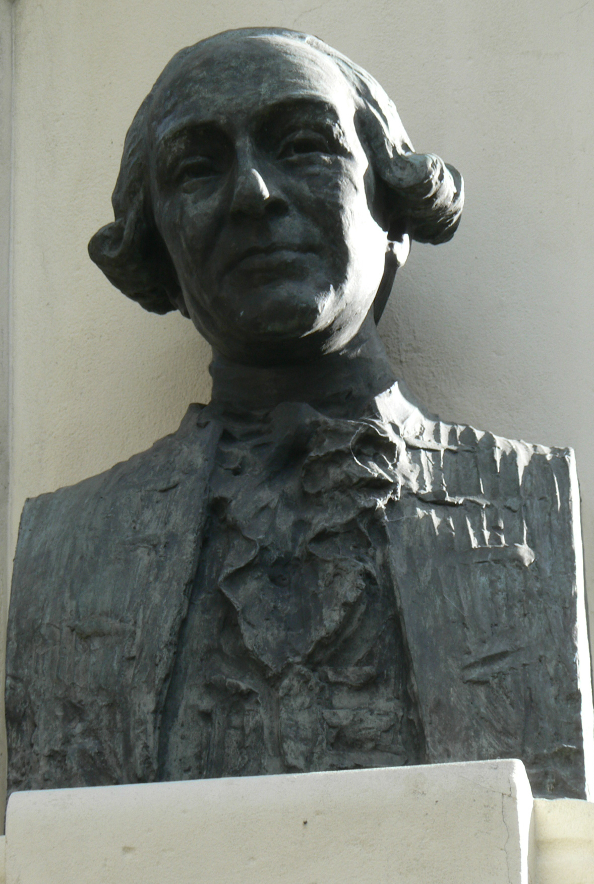 Bronze bust of Ramón de la Cruz (1731–1794). Detail of the Monument to the Madrilenian Sainete Writers at Calle de Luchana (street) in Madrid (Spain), made by sculptor Lorenzo Coullaut Valera and inaugurated on June 25, 1913.